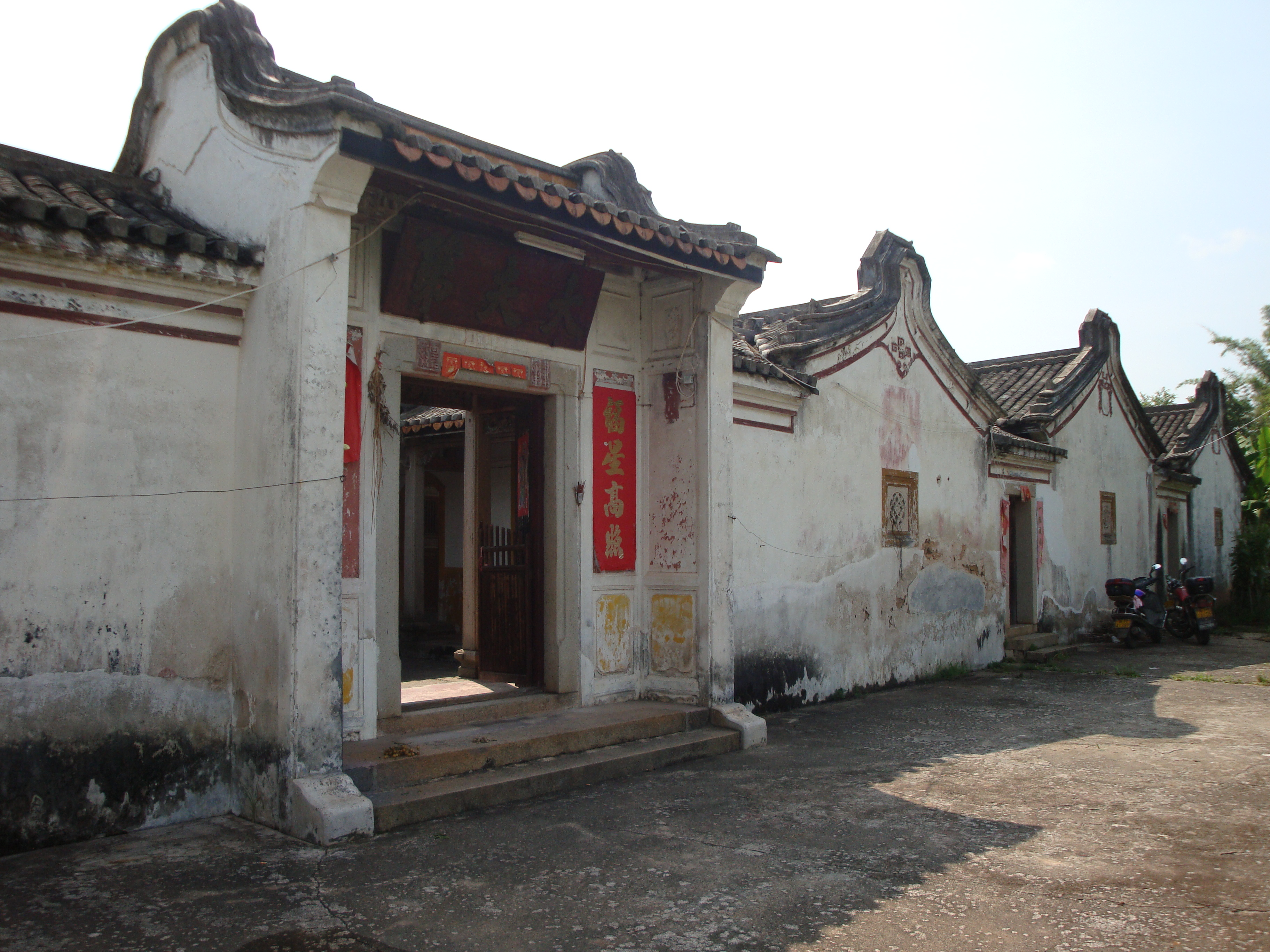 Dafudi(front)